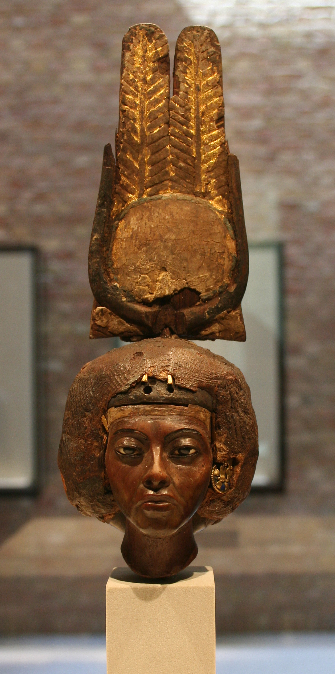 Ägyptisches Museum (Egyptian Museum), Berlin